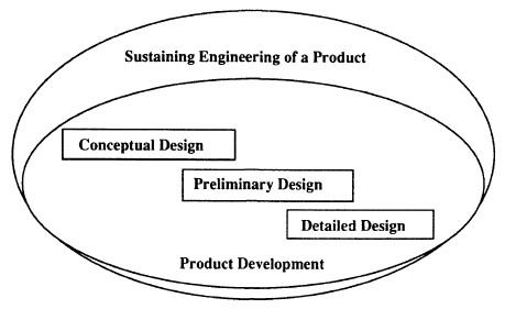 The figure illustrates the predominate modes of design commonly found in information system development.